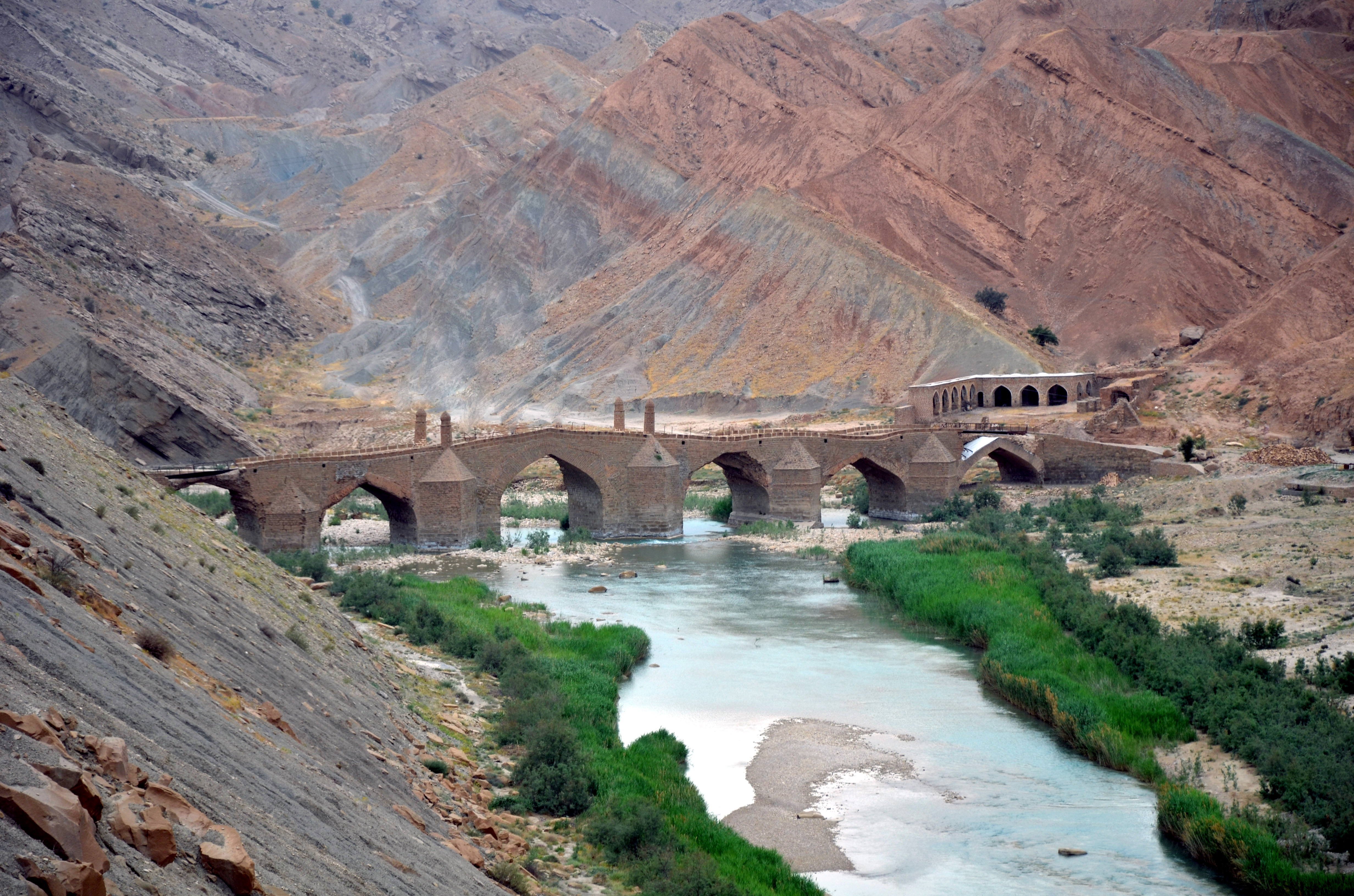 Moshir Bridge on Dalaki river Borazjan Iran.jpg